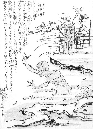 Dorotabō (泥田坊, the ghost of an old man whose rice fields were neglected and sold) from the Konjaku Hyakki Shūi (今昔百鬼拾遺)